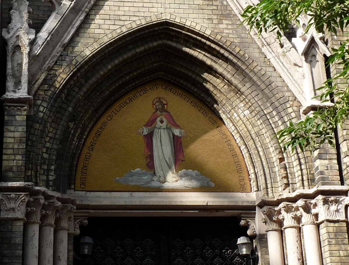 Mosaic above the main portal of the Carmelite church in Budapest